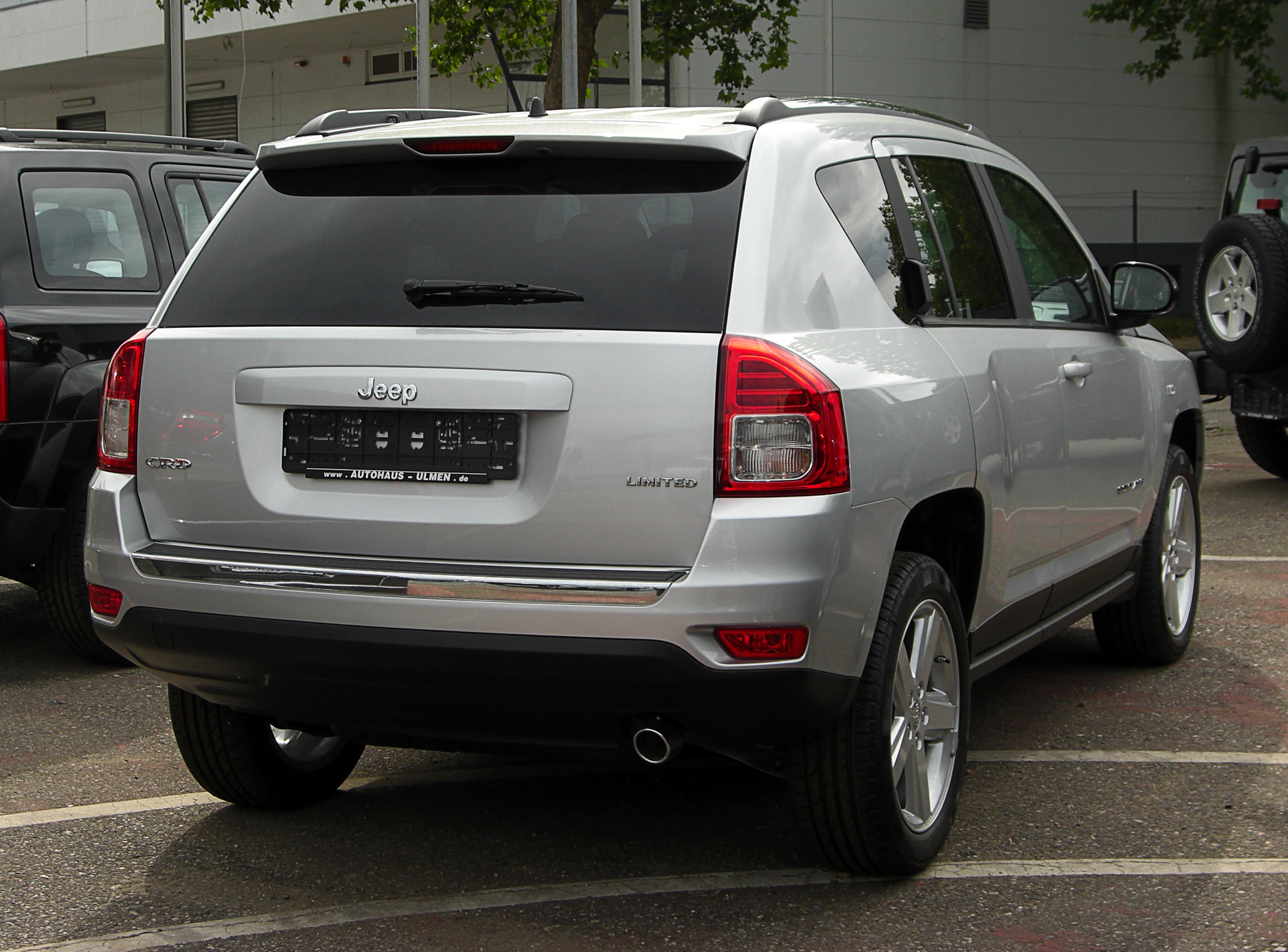 Jeep Compass 2.2 CRD Limited (Facelift)